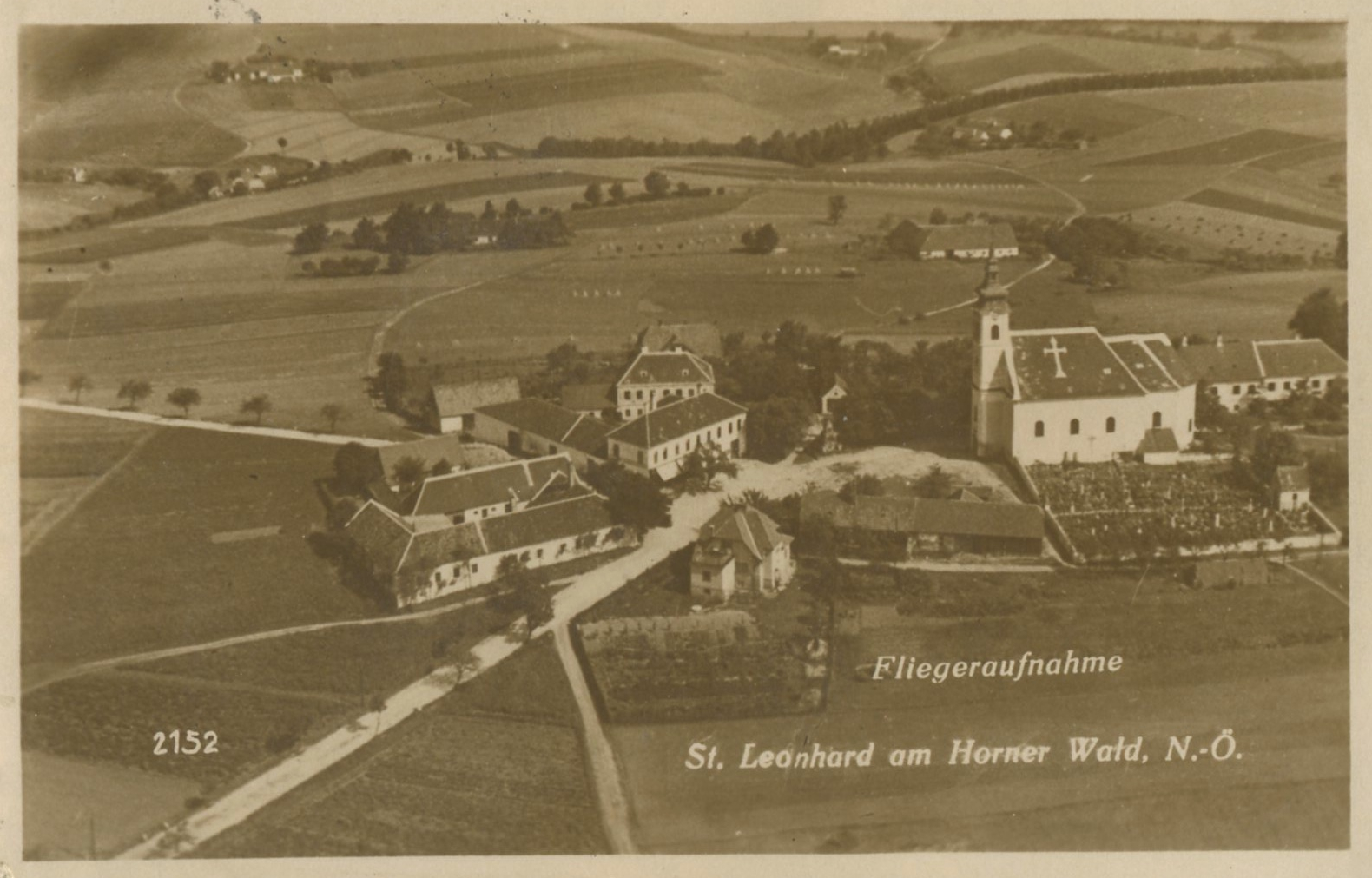 Historic postcard of St. Leonhard am Hornerwald, Bezirk Krems-Land, Niederösterreich